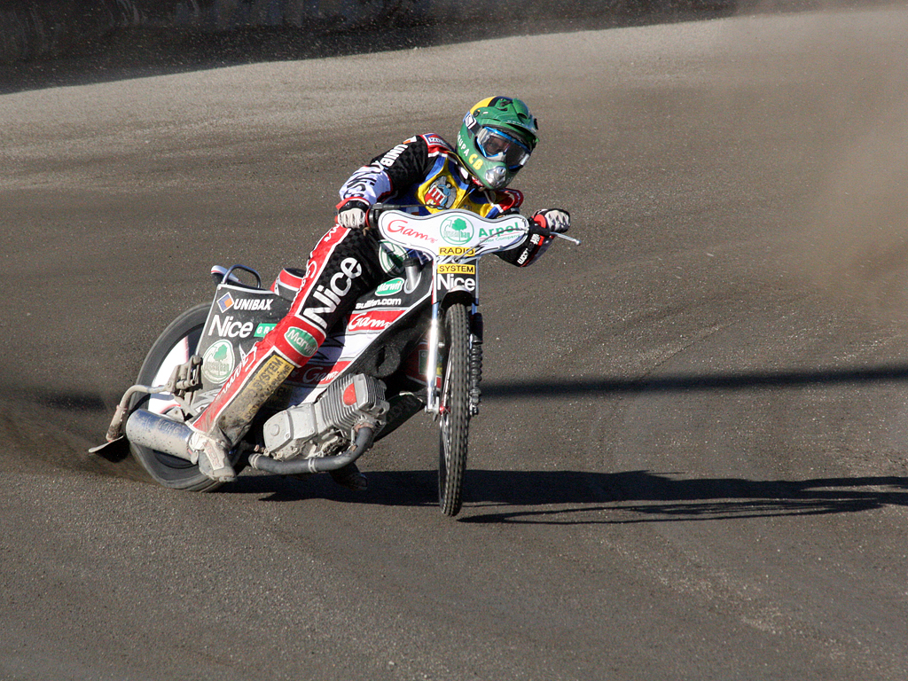 Australian speedway rider Ryan Sullivan during match between Polonia Bydgoszcz and Unibax Toruń (April 19, 2009)